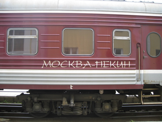 Moscow-Pekin-Trans-Manchurian railway. Taken in Irkutsk, Russia